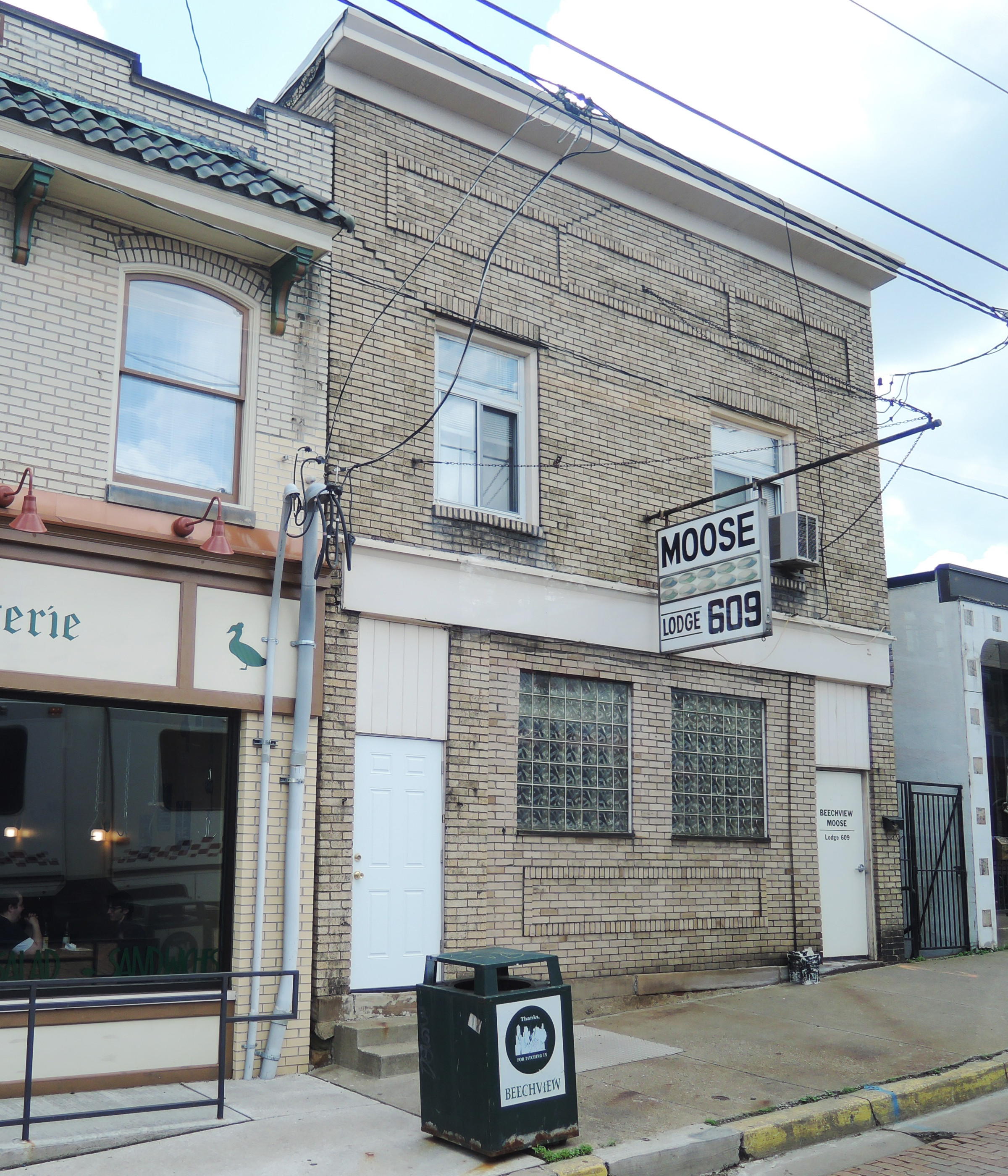 Moose Lodge on Beechview Avenue, seen from PAT car at Hampshire stop.